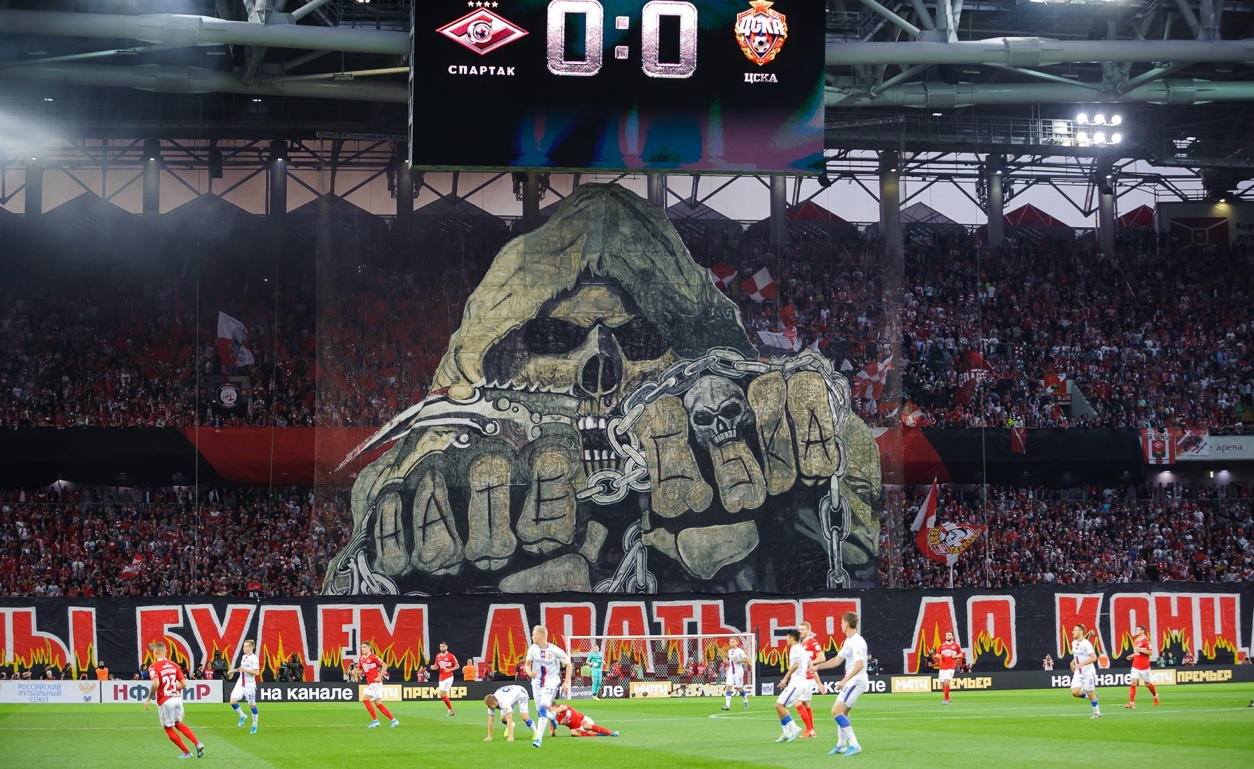 Football supporters of FC Spartak Moscow in a game against PFC CSKA Moscow